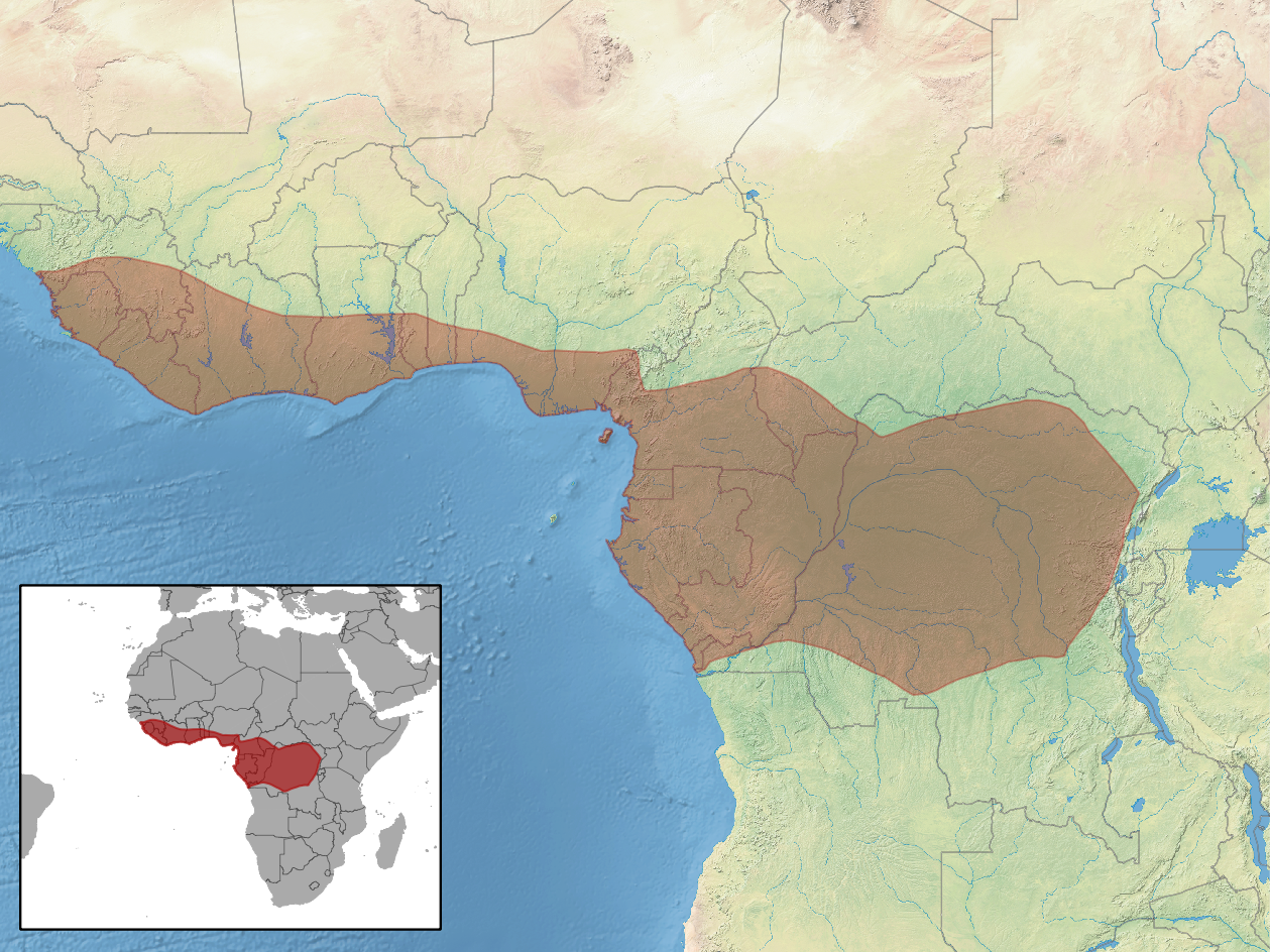 geographic distribution of Anomalurus beecrofti